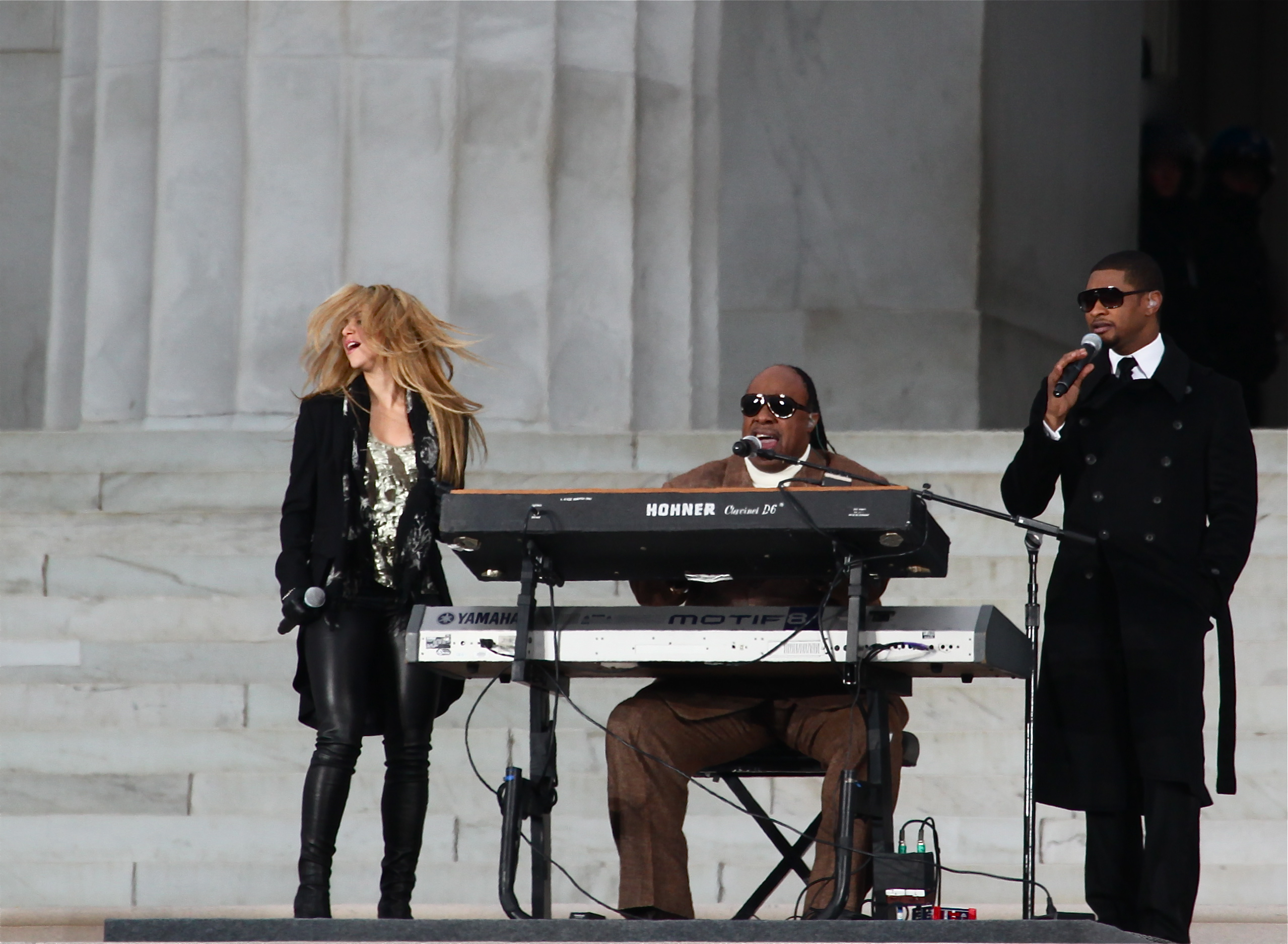 Shakira and Usher joining Stevie Wonder for a performance of Wonder's "Higher Ground" at the We Are One: The Obama Inaugural Celebration at the Lincoln Memorial concert.